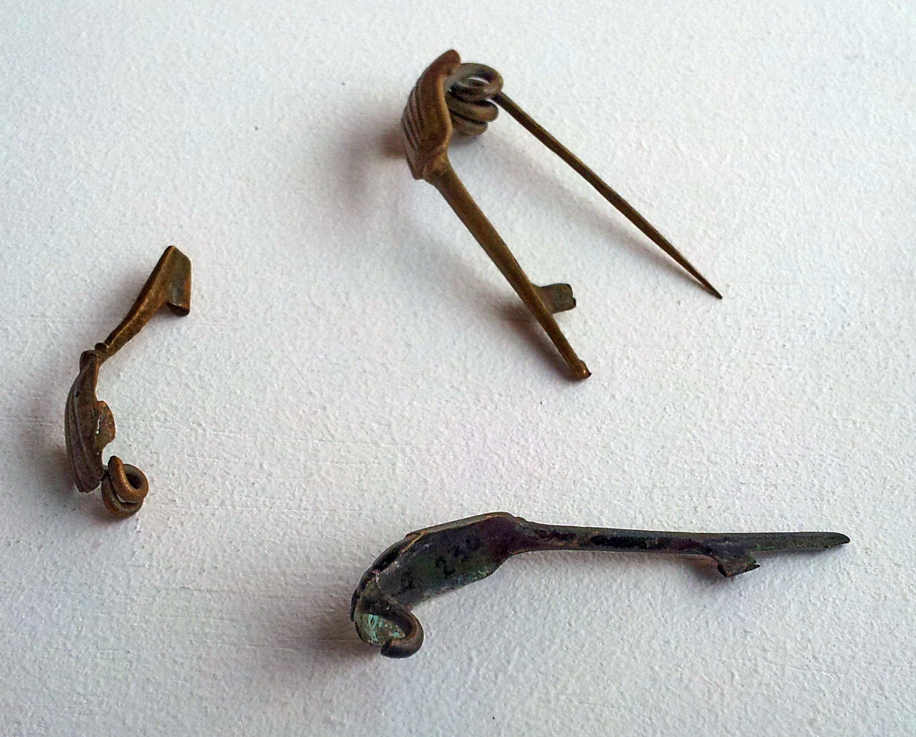 Three Celtic fibulae, found in the river Meuse in Maastricht, 1st century BC.